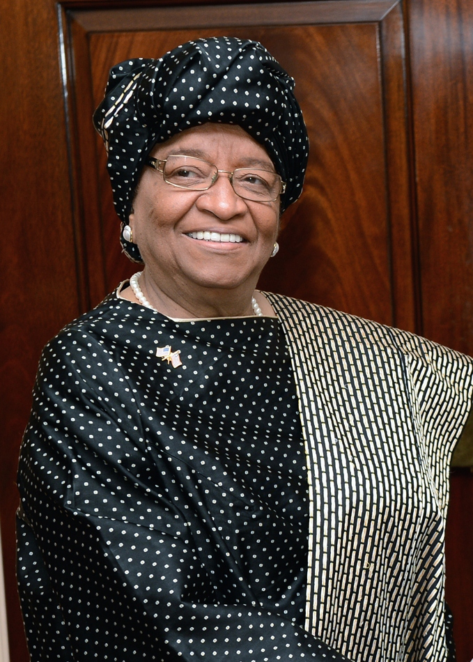 Liberian President Ellen Johnson Sirleaf meeting with former Secretary of State Hillary Rodham Clinton in Washington D.C. on January 15, 2013.